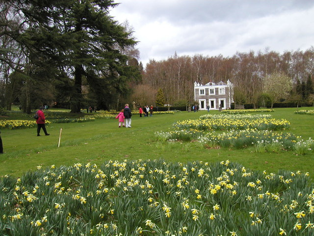 Newnham Paddox House Newnham Paddox is the home of the Earl and Countess of Denbigh. The history of the estate can be found at The house shown in the photo was built in the 1970's to replace a huge Victorian mansion which was demolished in 1952. The grounds are open once a year for the general public to view the magnificent show of daffodils.